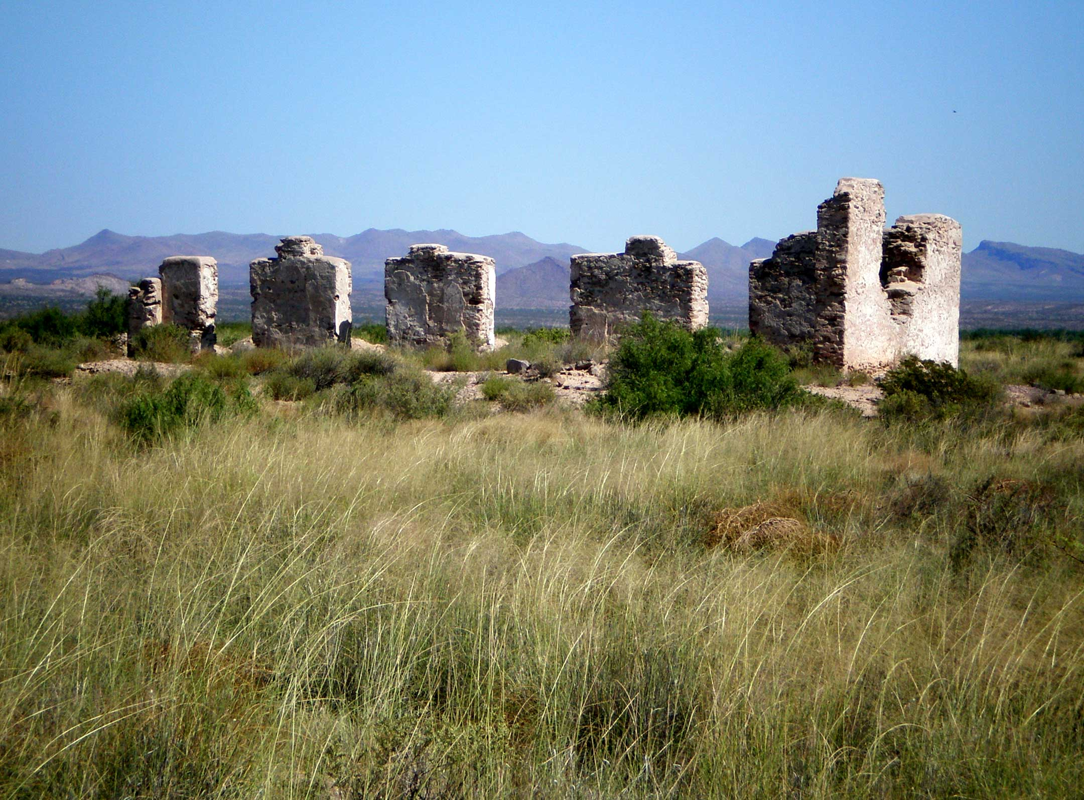 Former officers' quarters, Fort Craig, New Mexico, USA